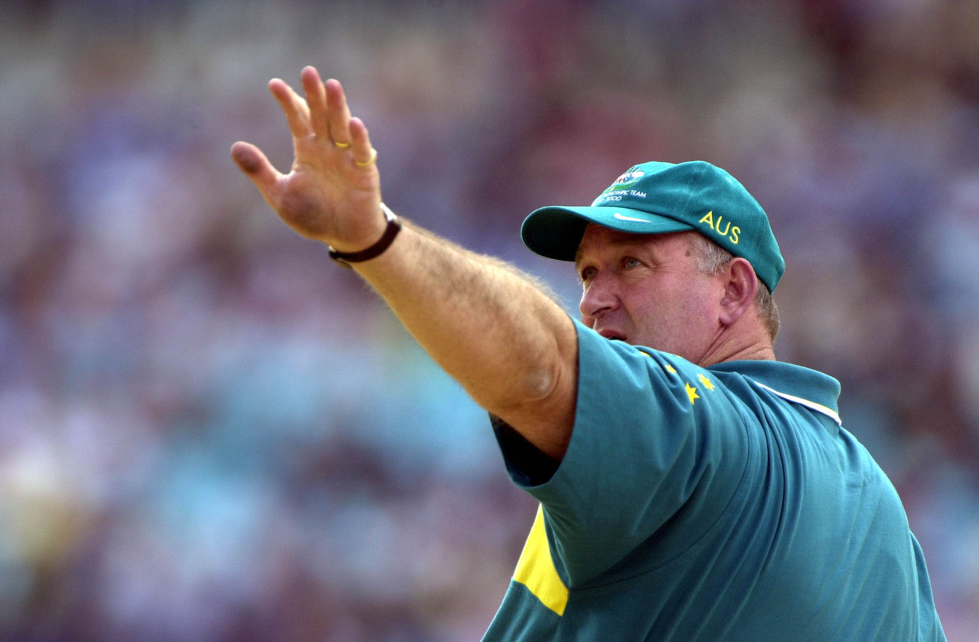 Australian field athlete Bruce Wallrodt waves to the crowd during javelin competition at the 2000 Sydney Paralympic Games, Day 04